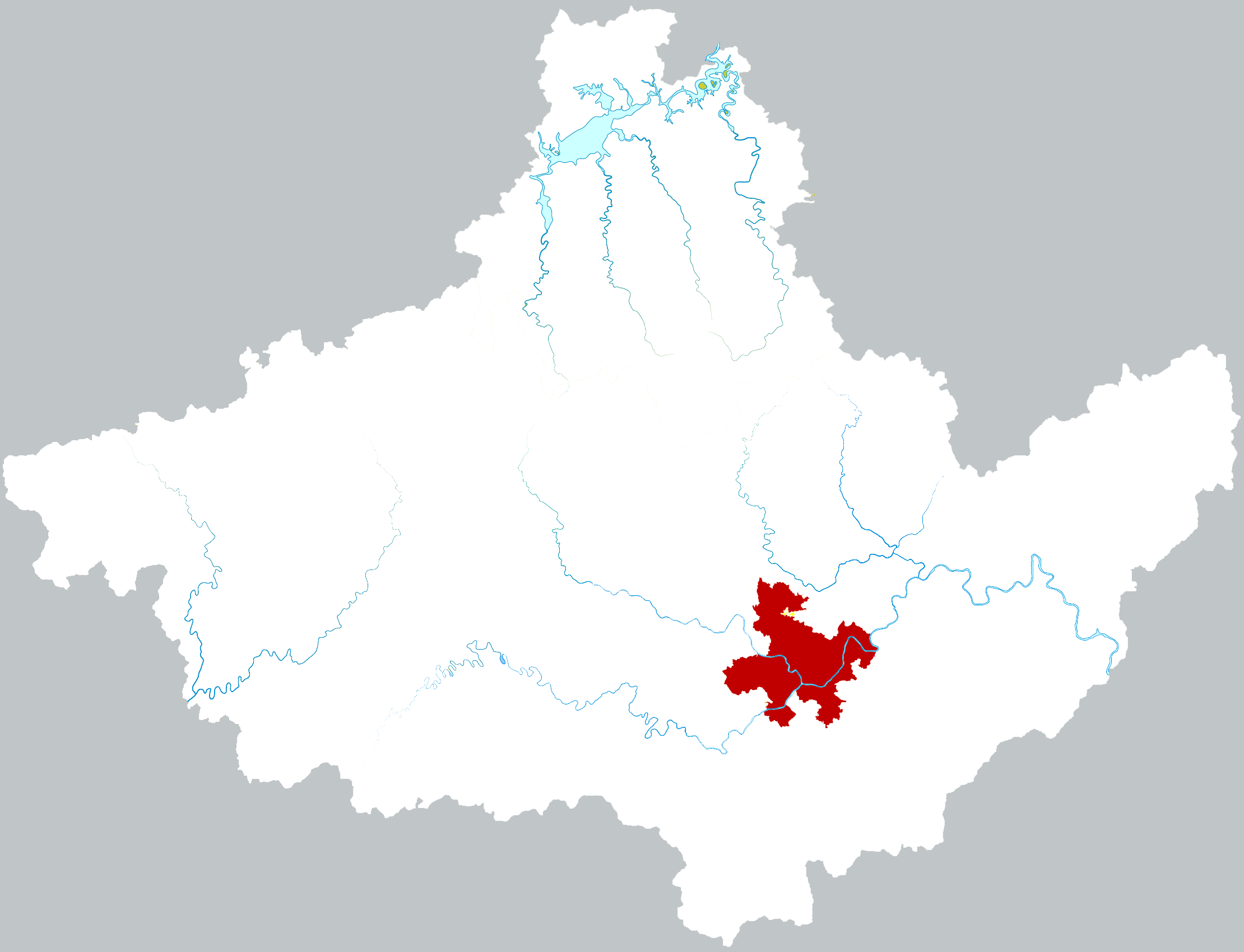 Location of Tunxi district in Huangshan city, China